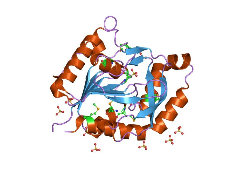 Cartoon representation of the molecular structure of protein registered with 1o1y code.